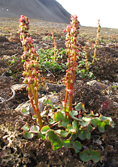 Mountain Sorrel, Oxyria digyna, Svalbard.